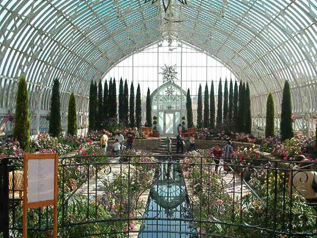 A greenhouse in Saint Paul, Minnesota.